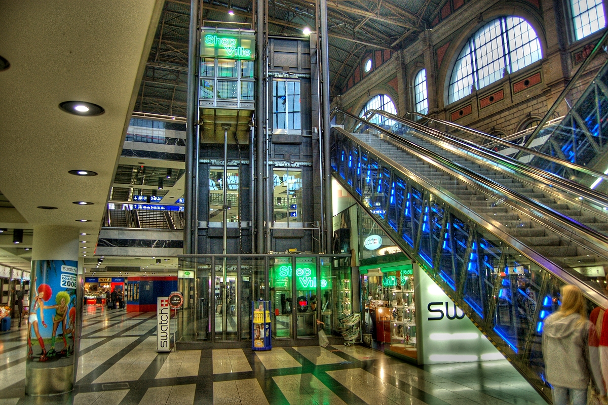 Shopville-Railcity in Zurich